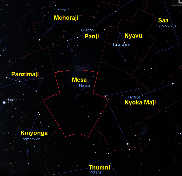 Constellation Antlia as seen from Tanzania, swahili labelled Kiswahili: Kundinyota ya Pampu jinsi inavyoonekana Dar es Salaam